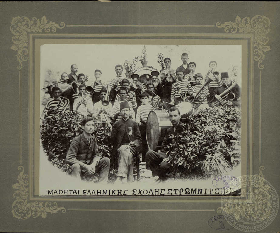 Pupils of city Stroumitsa in year 1903